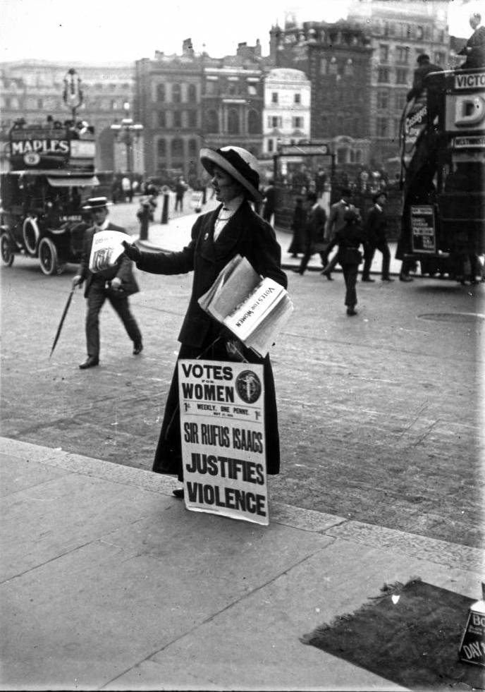 British suffragette with a poster, giving out newspapers